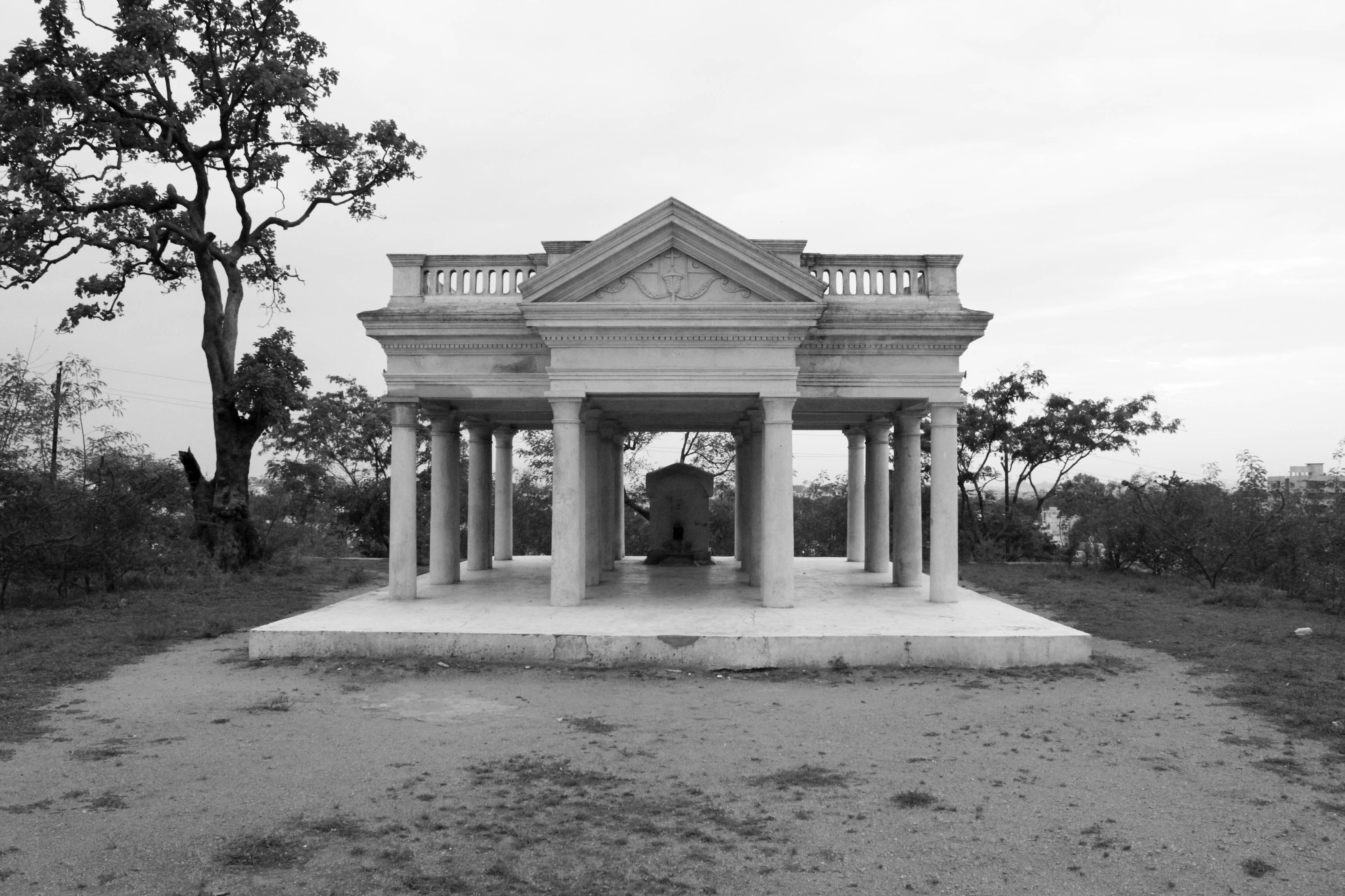 Monds Raymond’s Oblisk